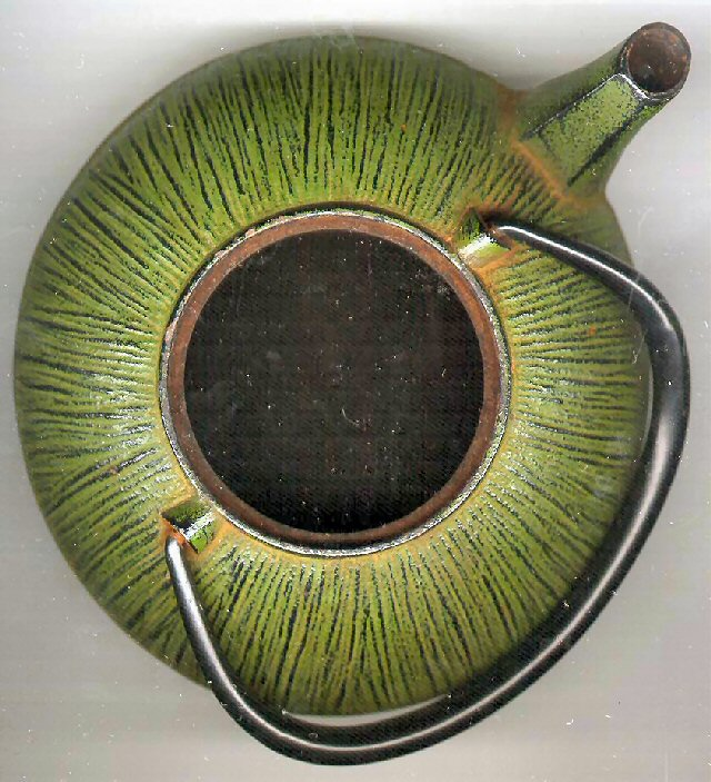 Japanese teapot out of iron, viewed from above. Picture taken with a Hewlett-Packard ScanJet 3c image scanner.